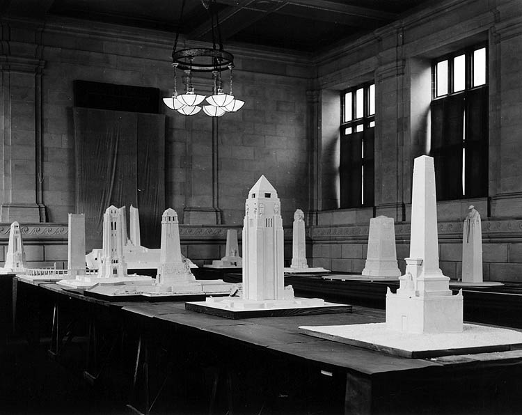 Canadian Battlefields Memorials Commission design competition plaster maquettes of finalists in the competition that led to the Canadian National Vimy Memorial. The winning design is fourth from the left, in the background.